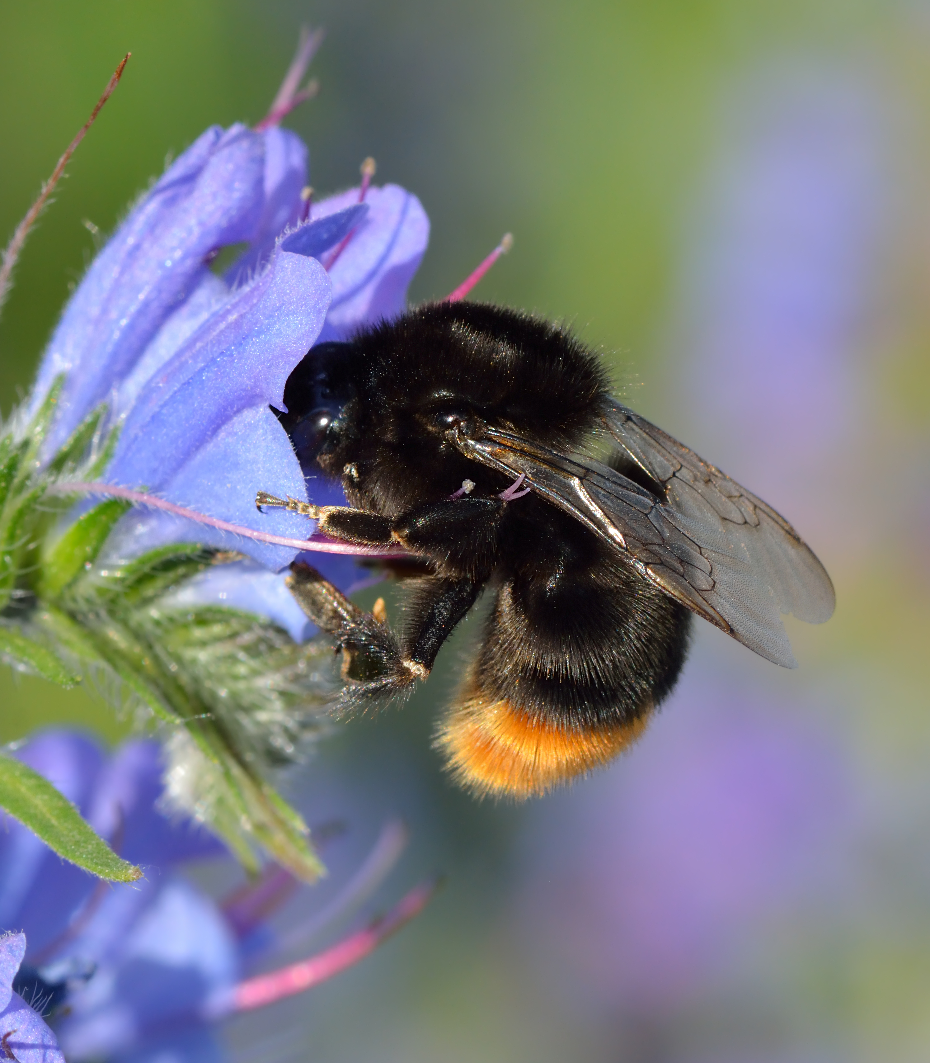 Red-tailed bumblebee (Bombus lapidarius) queen on the blueweed (Echium vulgare). Keila, Northwestern Estonia.